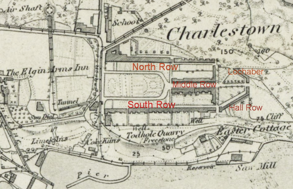 Extract from the Ordnance Survey 6" Series map of Fife, published 1856, with the addition in Red of the Street names